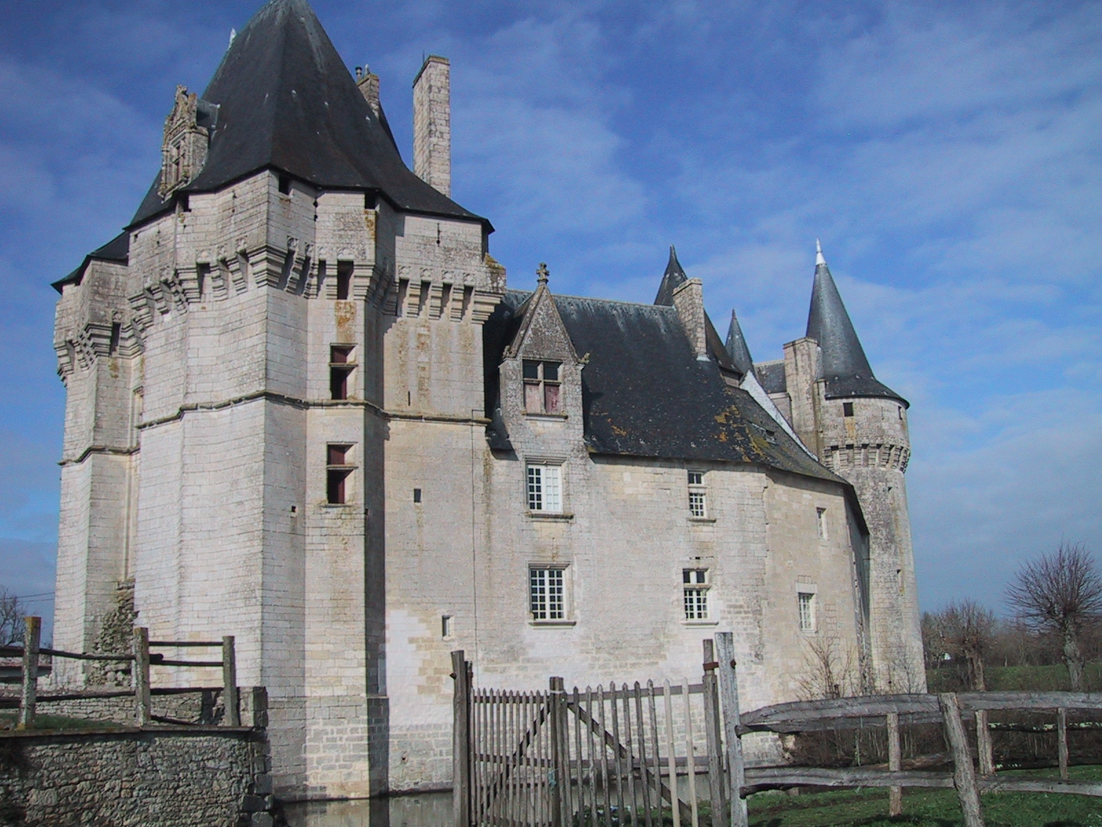 Cherveux castle, right tower view